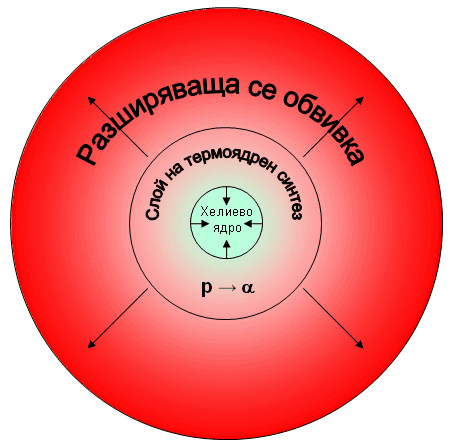 Structure of a red giant star with isotermic nucleus and a layer of thermonuclear synthesis (scales are not real) - Editted in Bulgarian